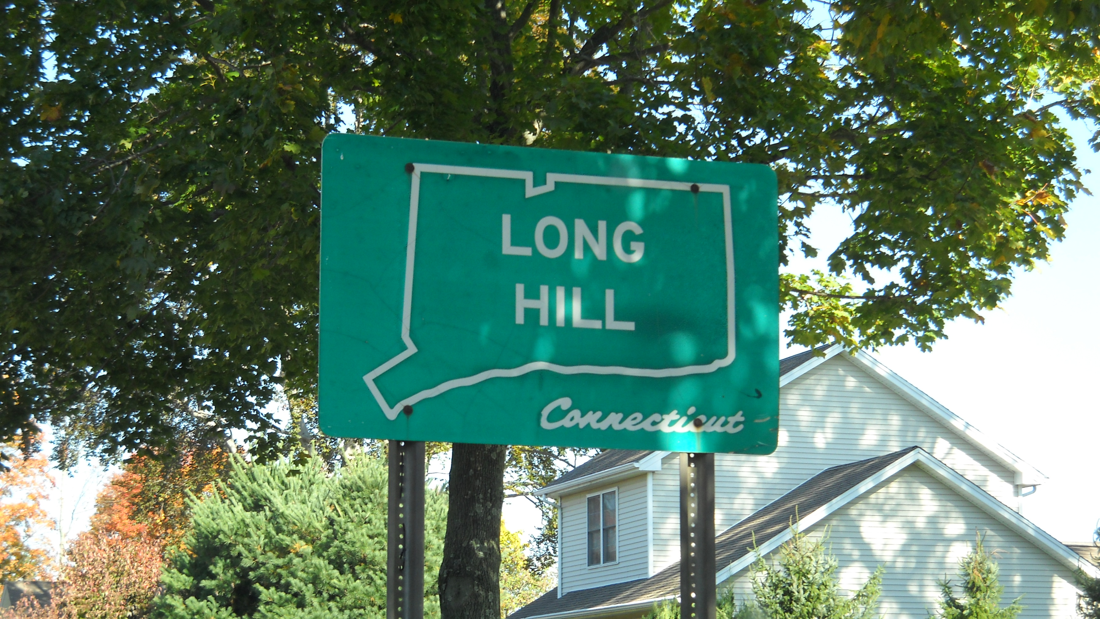 Image of Long Hill sign Trumbull, Connecticut